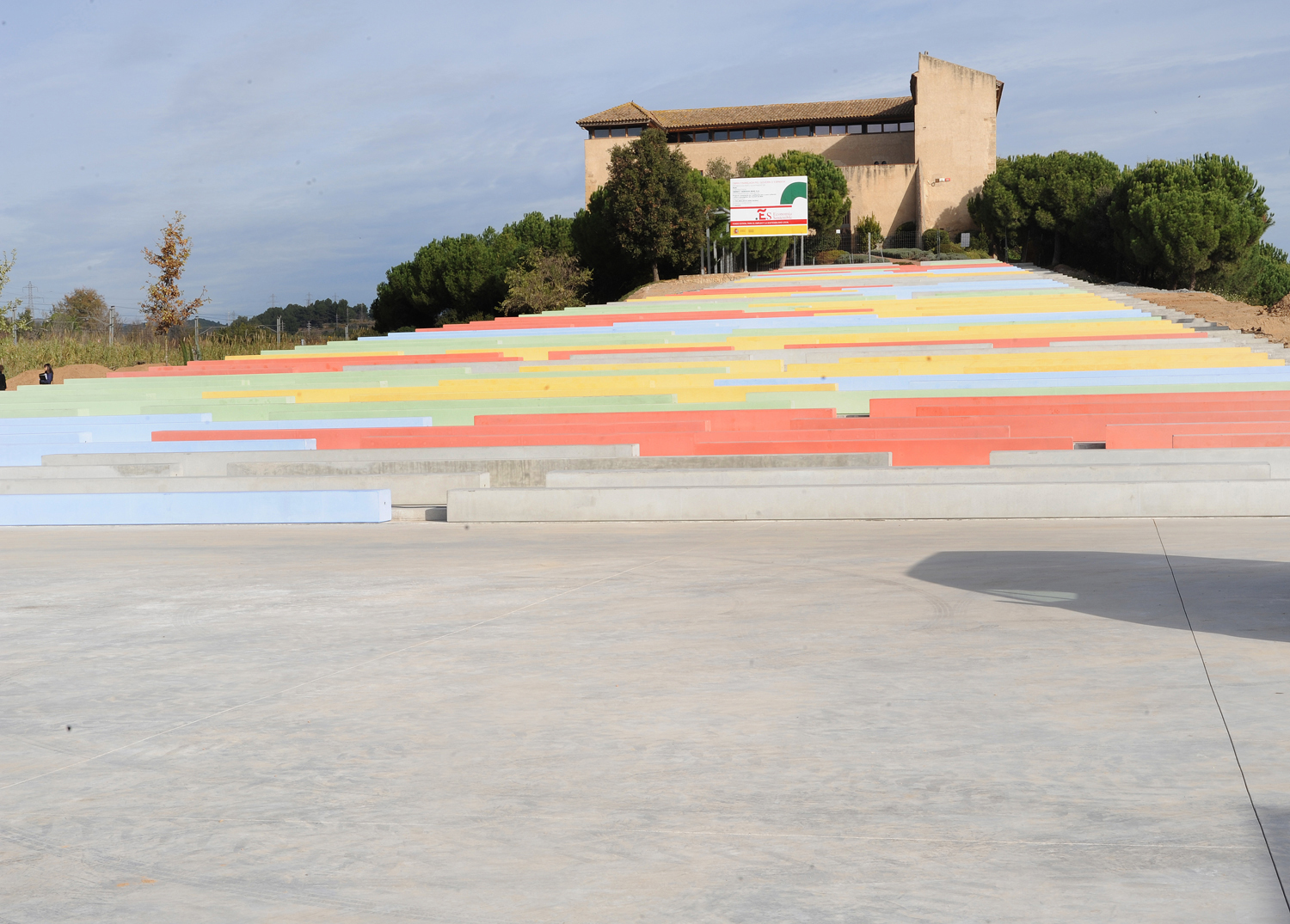 Castle of Rubí